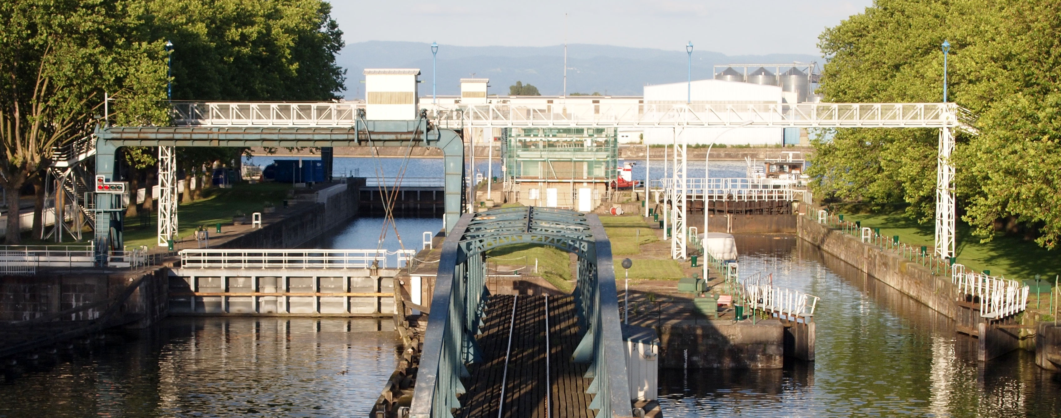 Bi-directional lock at the end of the Marne-Rhine Canal in Strasbourg, France